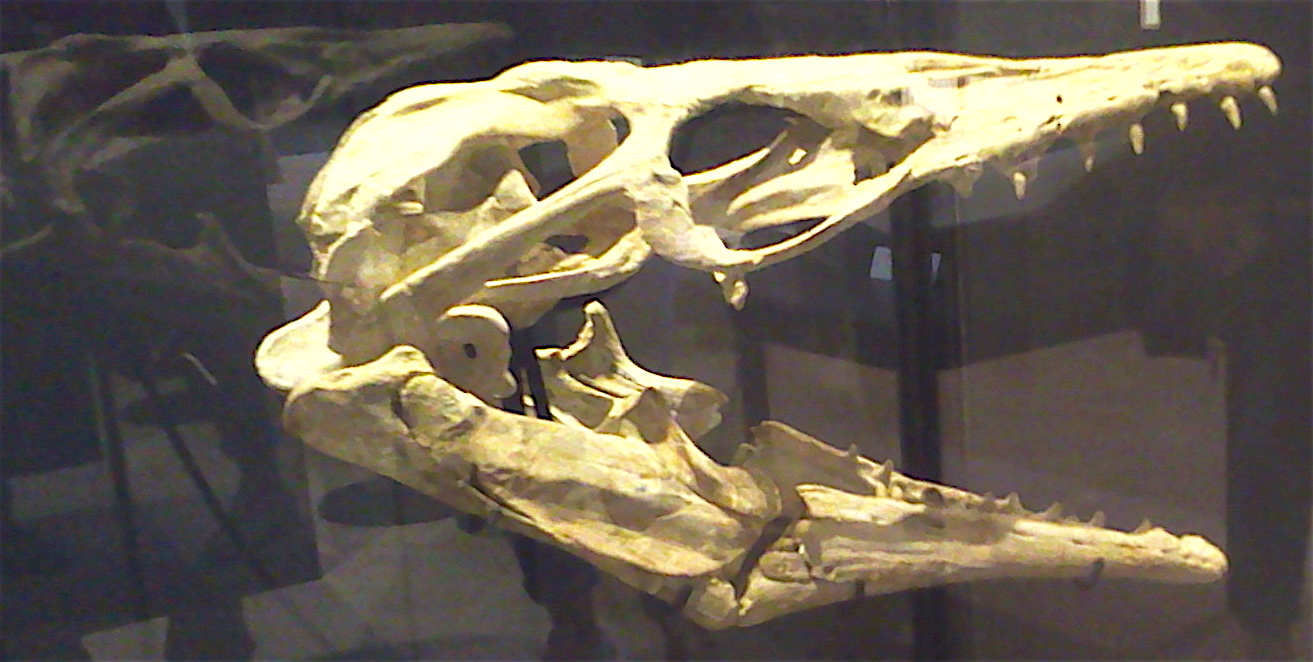 Mosasaurus sp. skull